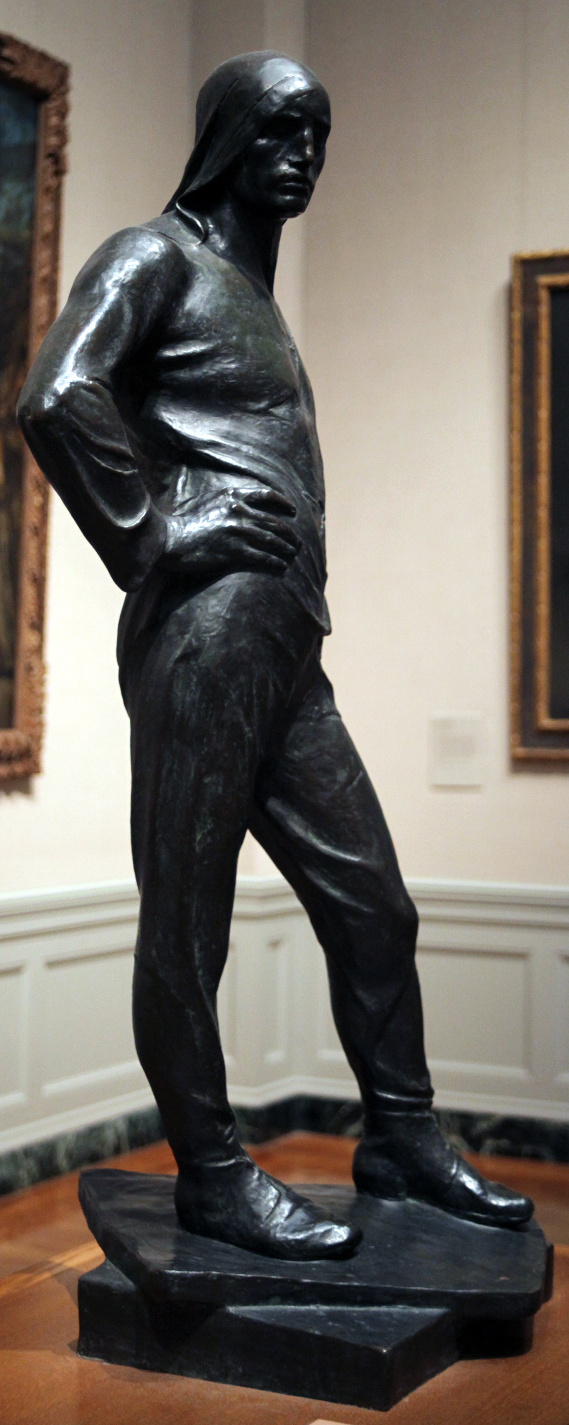 Man standing with hands on hips; weight on right leg; head facing three-quarters left.